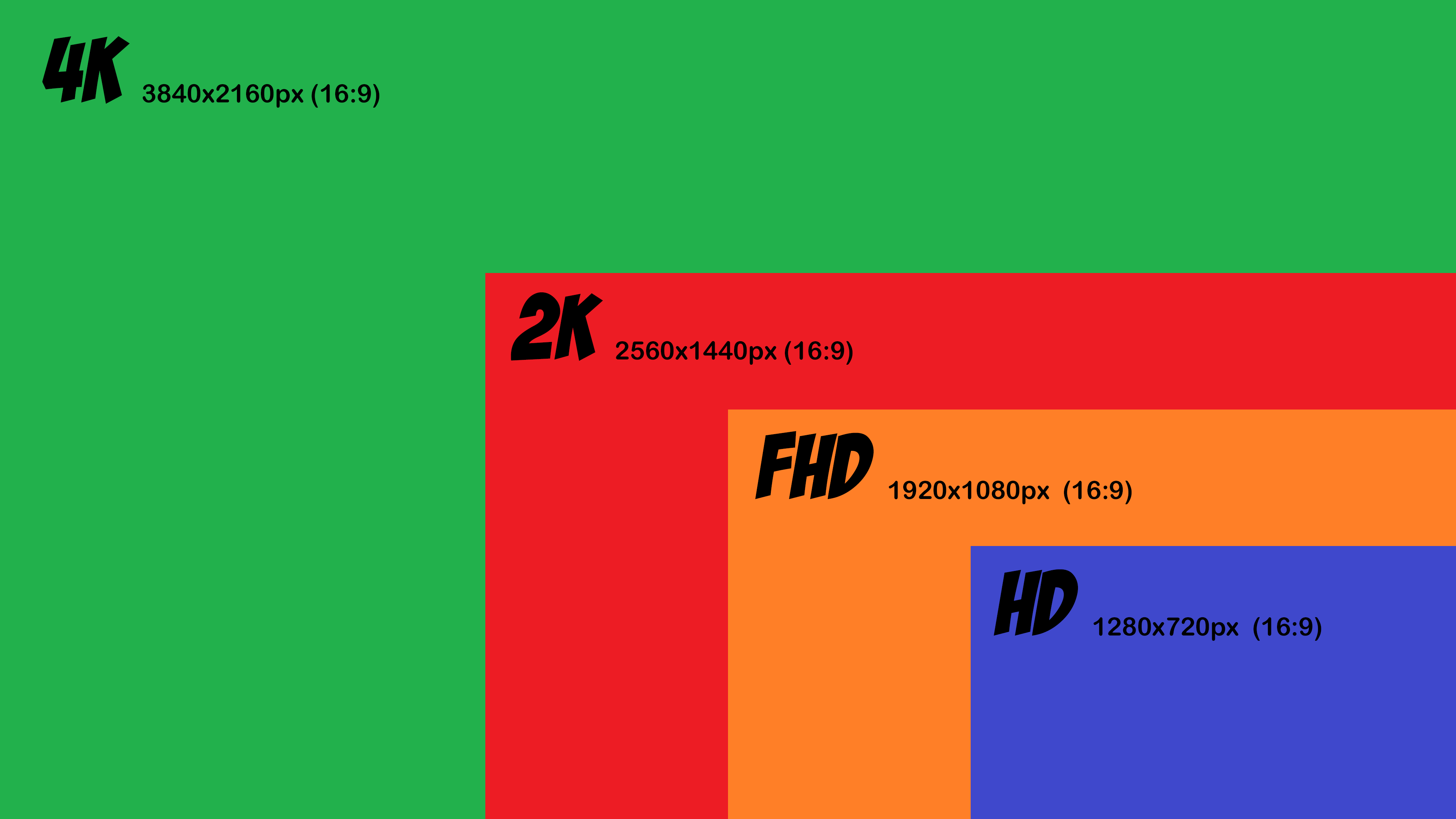 resolutions 16:9 (720, 1080, 2k and 4k)